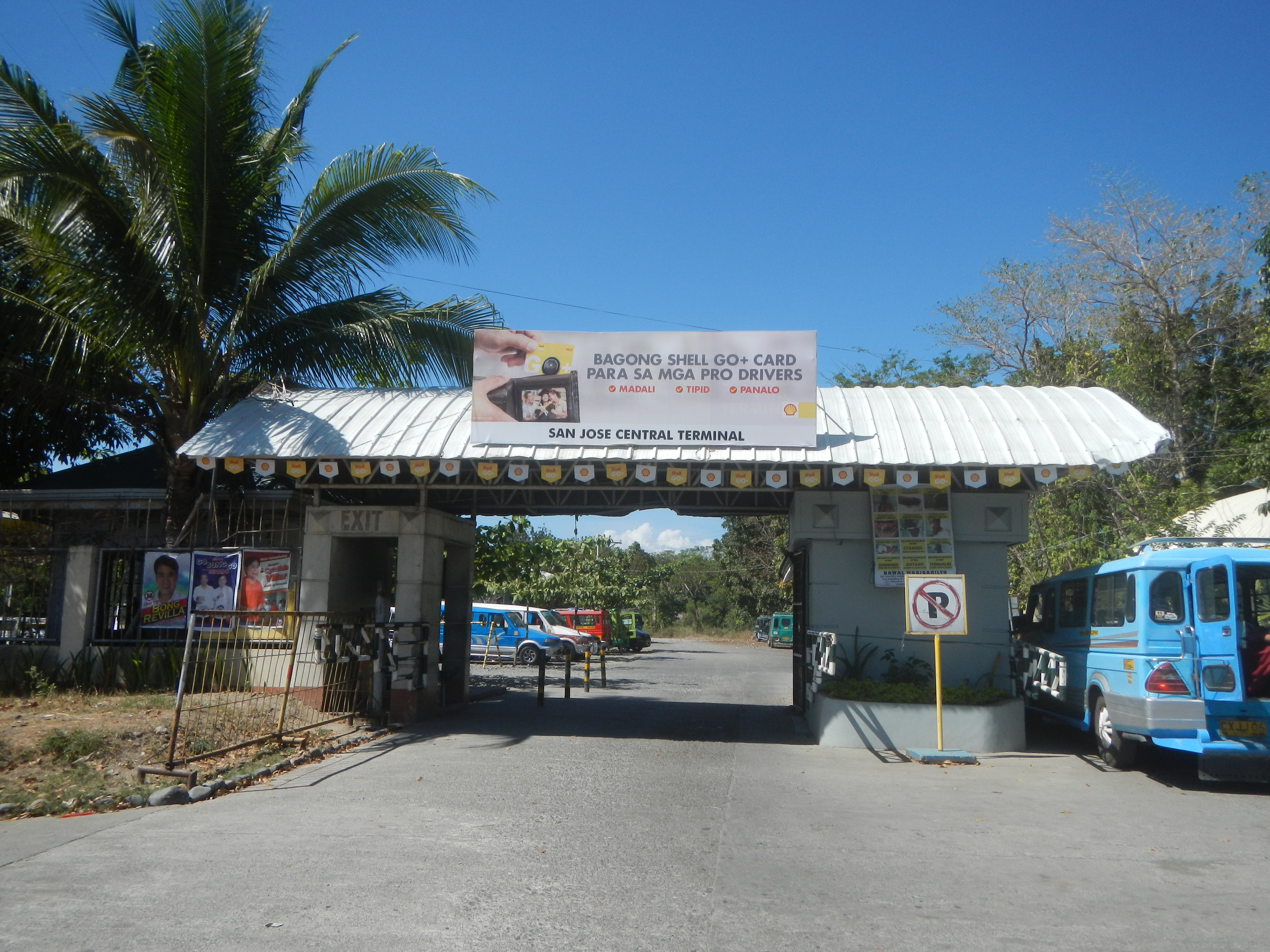 San Jose - Lupao Road Lupao, Nueva Ecija Rafael Rueda, Sr. (Poblacion), San Jose City, Nueva Ecija Ferdinand E. Marcos (Poblacion), San Jose City, Nueva Ecija Pag-Asa Gymnasium, San Jose City San Jose - Lupao Road (San Jose City section) Sibul Bridge Santo Tomas-Malasin By-Pass Road Sitio from or along Maharlika Highway (Cagayan Valley Road, San Jose City, Nueva Ecija section) Category:Barangays of Nueva Ecija Barangays Santo Niño 1st, San Jose City, Nueva Ecija 15.8020, 120.9822 Santo Niño 2nd, San Jose City, Nueva Ecija 15.7995, 120.9663 Rafael Rueda, Sr. (Poblacion), San Jose City, Nueva Ecija 15.8008, 120.9912 Ferdinand E. Marcos (Poblacion), San Jose City, Nueva Ecija 15.8008, 120.9982 San Jose, Nueva Ecija Pan-Philippine Highway Philippine highway network (Note: Judge Florentino Floro, the owner, to repeat, Donor Florentino Floro of all these photos hereby donate gratuitously, freely and unconditionally Judge Floro all these photos to and for Wikimedia Commons, exclusively, for public use of the public domain, and again without any condition whatsoever).